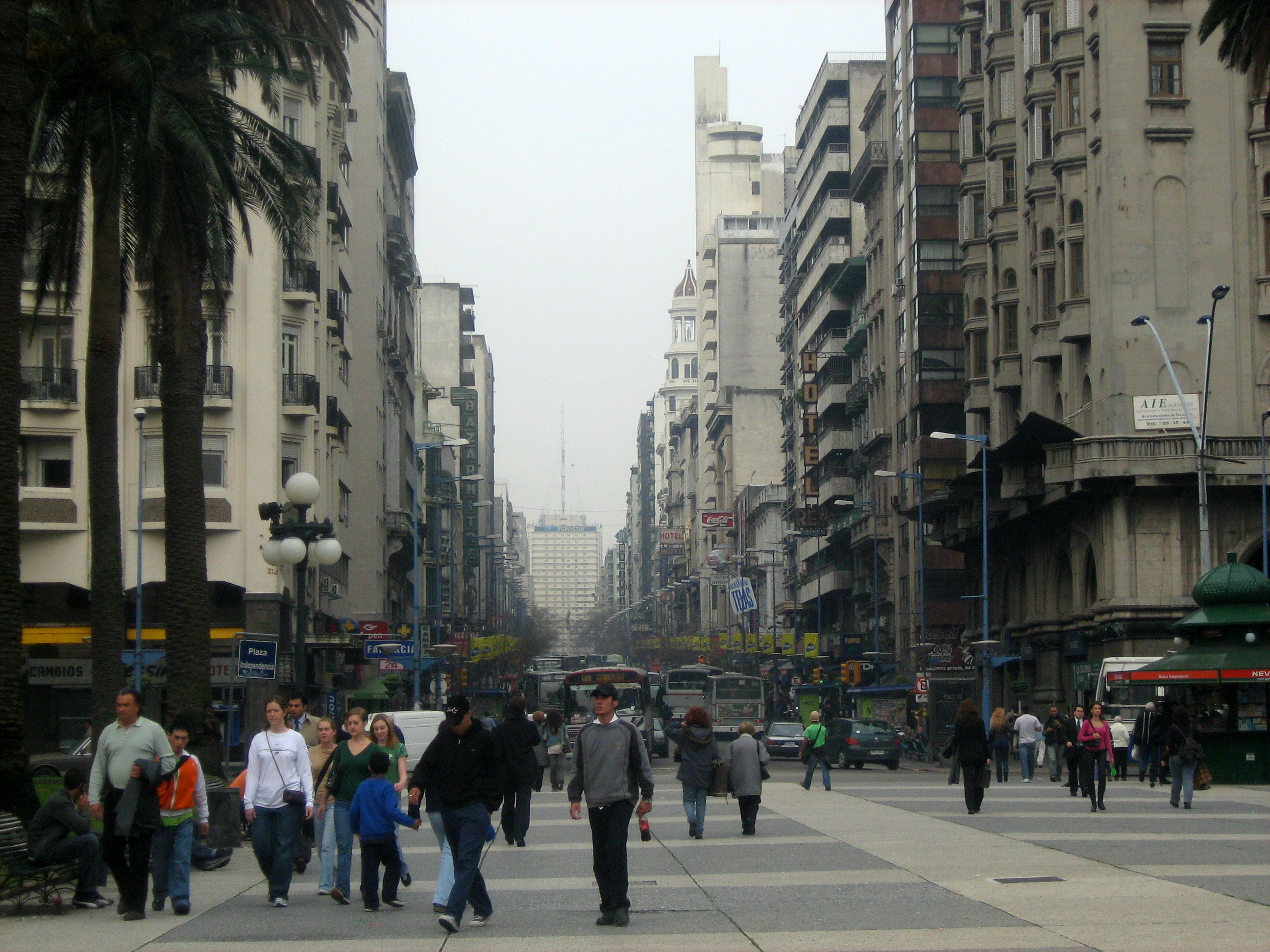 Independencia Square in Montevideo, Uruguay.